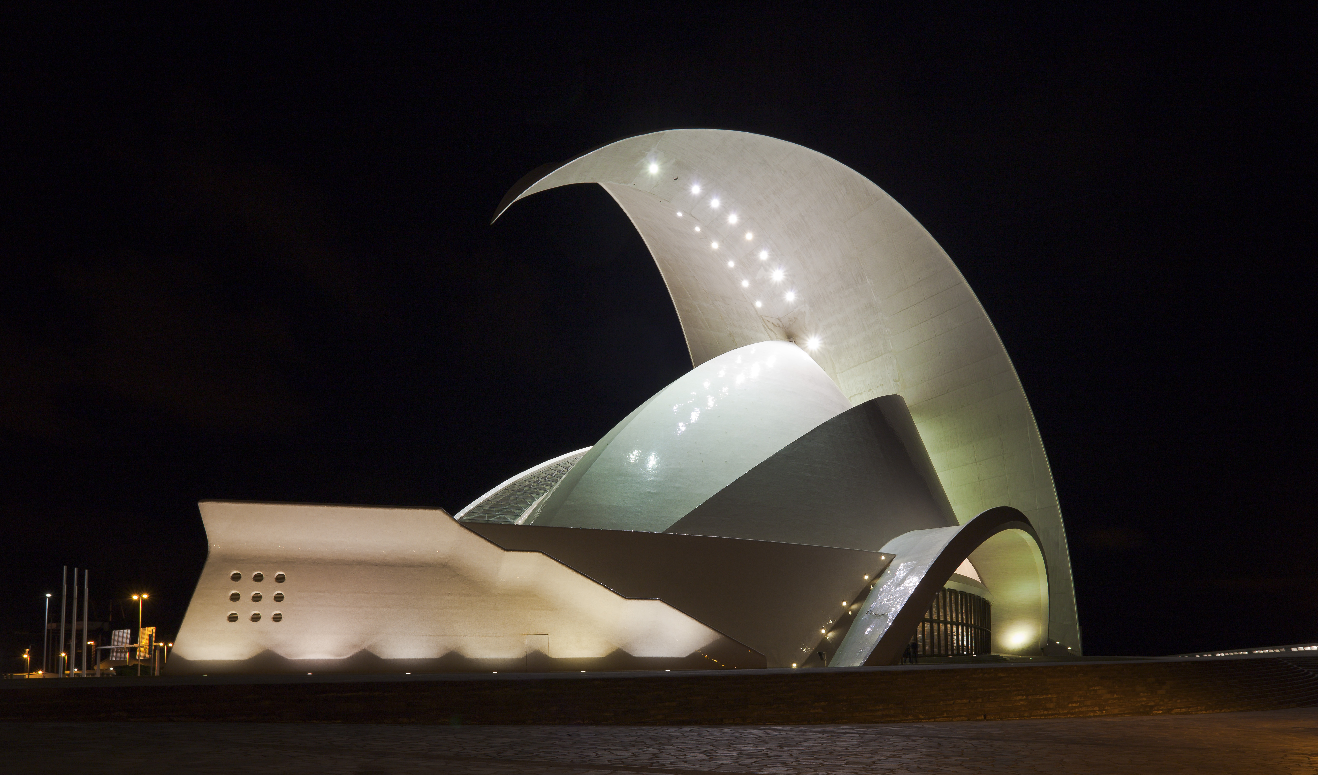 Auditorium of Tenerife, Santa Cruz de Tenerife, Spain